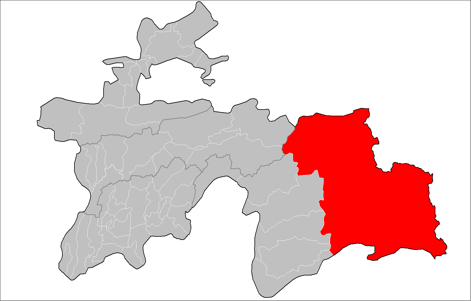 Location of Murghob District in Tajikistan